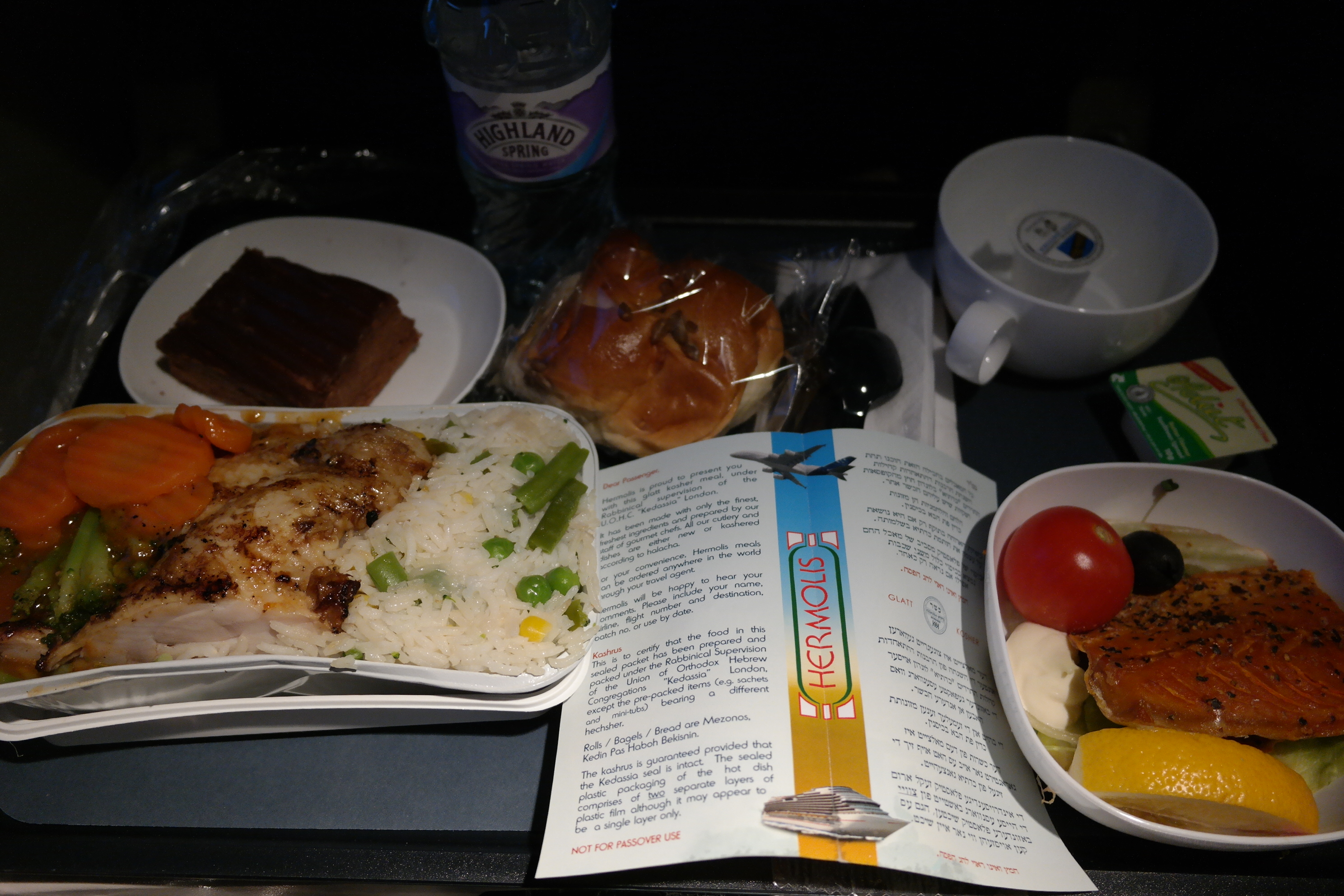 Kosher meal on board of British Airways BA0285 from London to San Francisco. Certified kosher by Kedassia, the Union of Orthodox Hebrew Congregations of the United Kingdom & Commonwealth